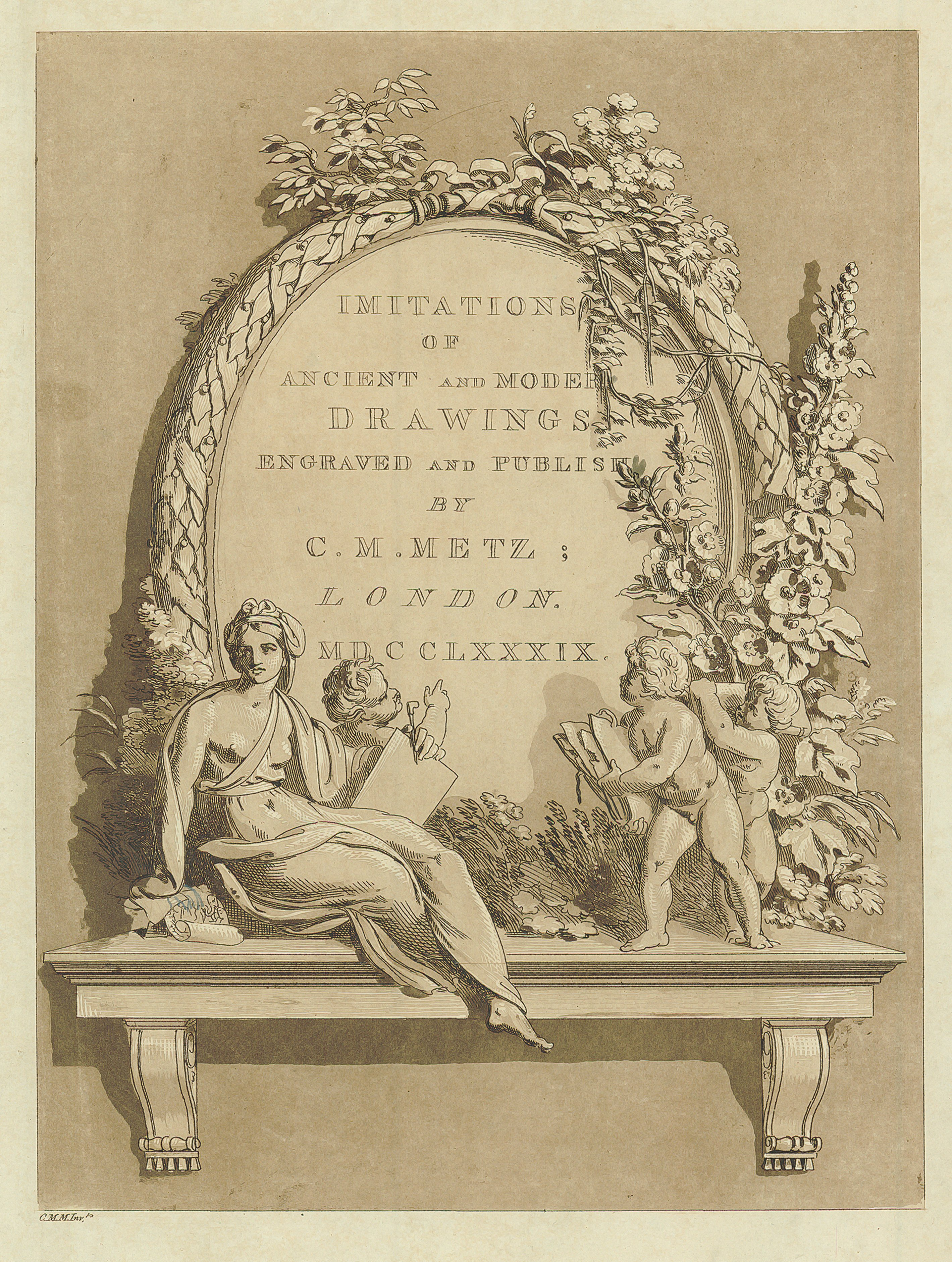 Imitations of ancient and modern drawings, 1789